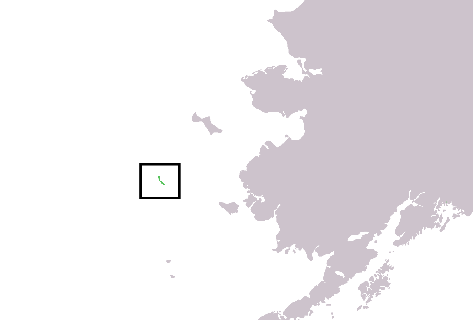 Range of Microtus abbreviatus in Alaska.